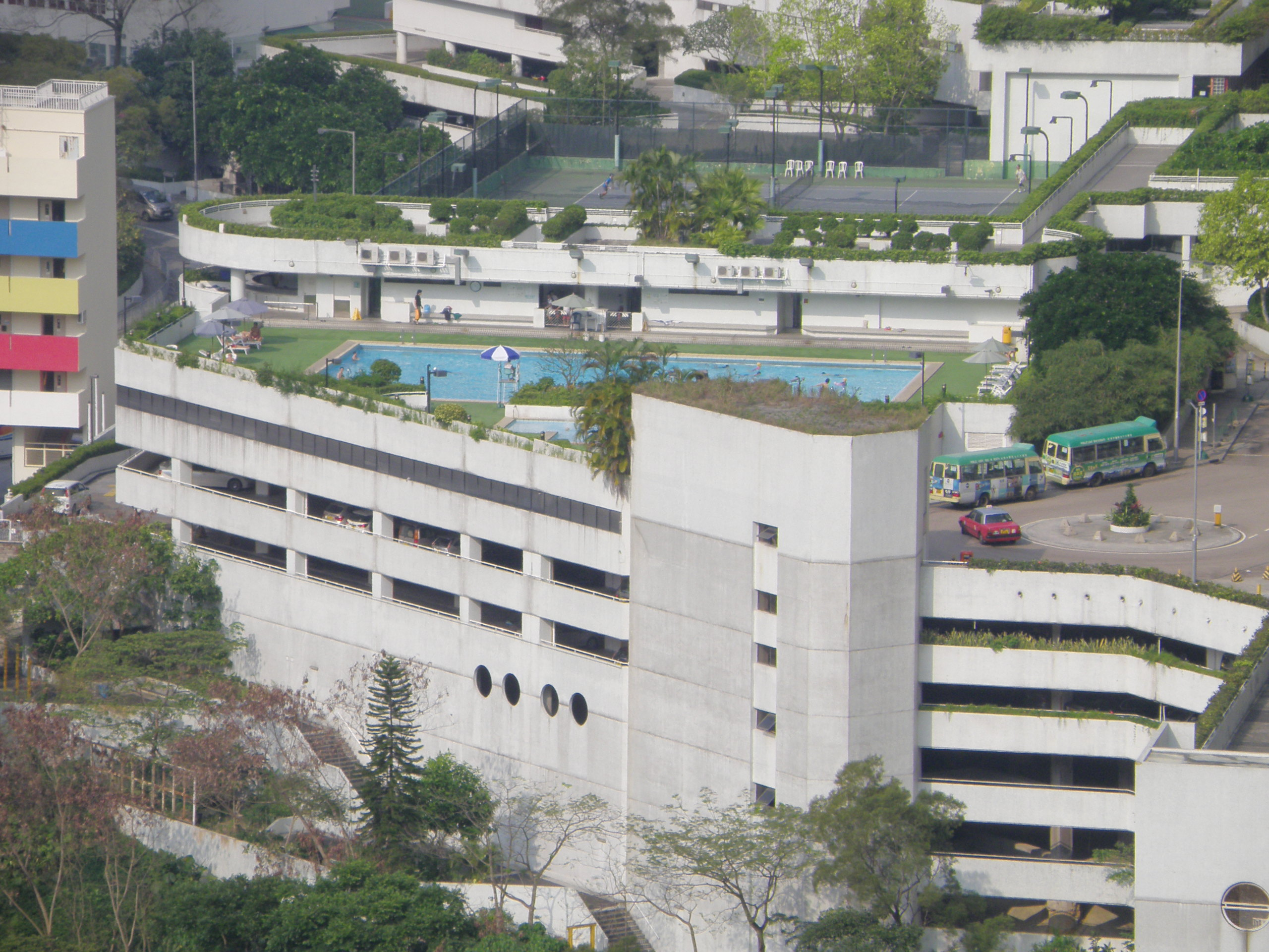 Kornhill Recreation Club Phase 1 in Tai Koo, Hong Kong.